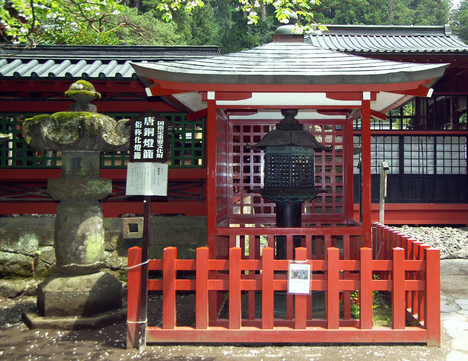 This photograph shows the Chinese-style lantern, popularly called Bake-doro (the "Ghost Lantern"), at Futarasan Jinja 二荒山神社 in Nikko, Tochigi Prefecture, Japan. I took the photograph and contribute my rights in the file to the public domain; individuals and organizations retain rights to images in it.